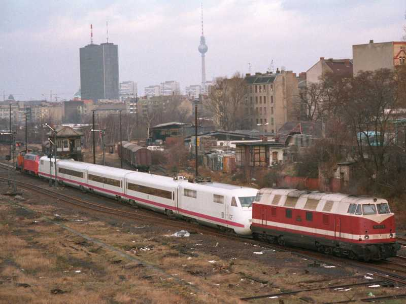 In between various Diesel locomotives, the InterCityExperimental passes through the freight station of Berlin Anhalter Bahnhof. This picture was taken after the train had been on display at the Museum for Technology and Transportation (German "Museum für Verkehr und Technik").